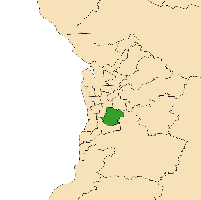 Electoral district 2018 boundaries shown in green